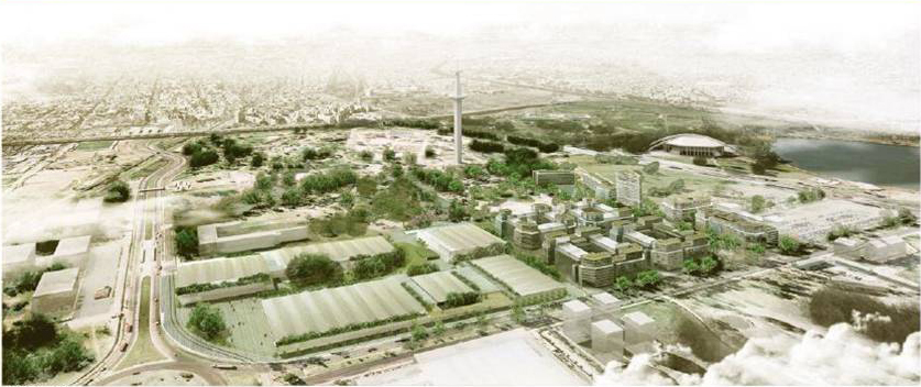 Part of the Olympic Park for Buenos Aires 2018. Youth Olympic Village, Olympic Exhibition Center and tennis venue.